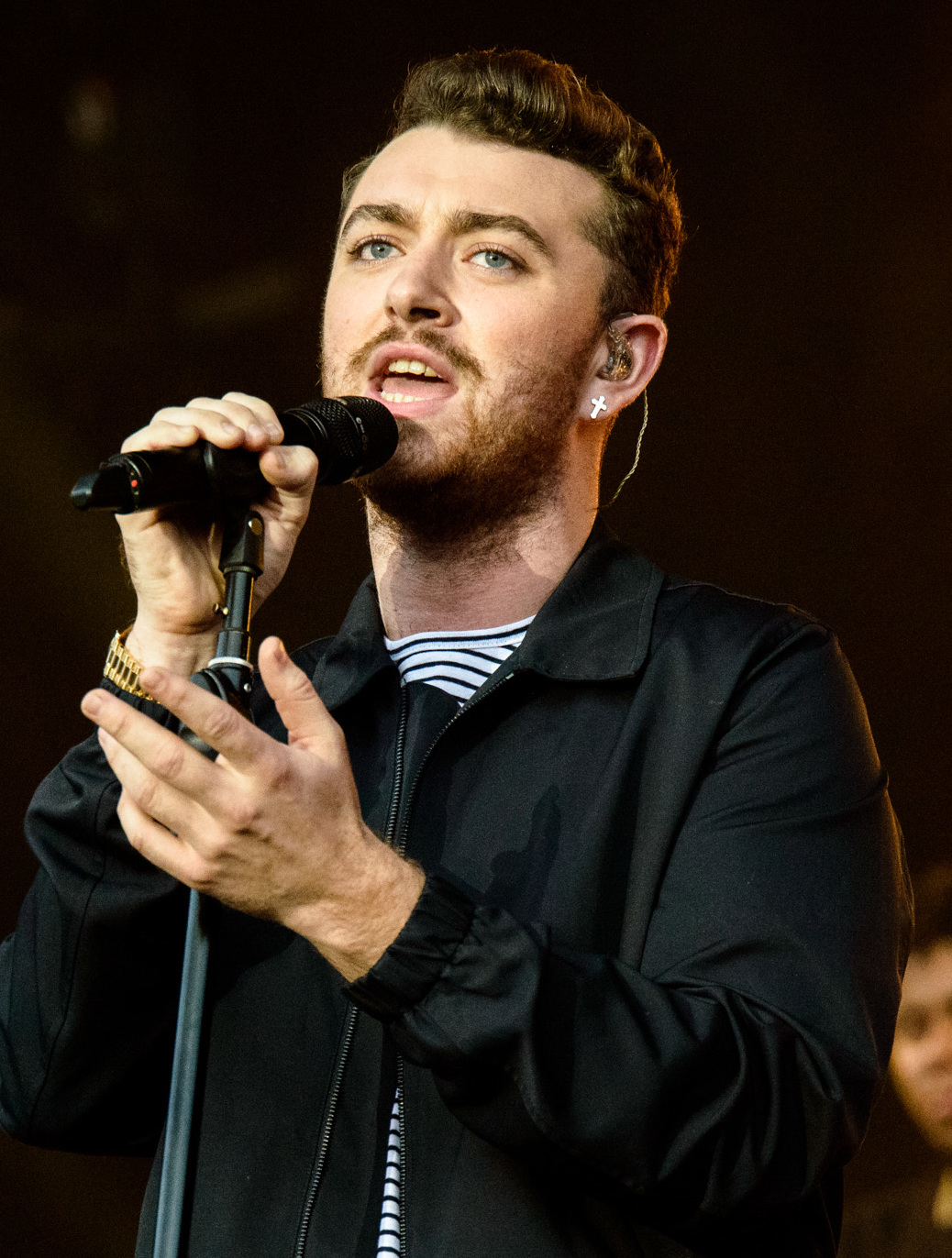 Sam Smith @ Lollapalooza 2015